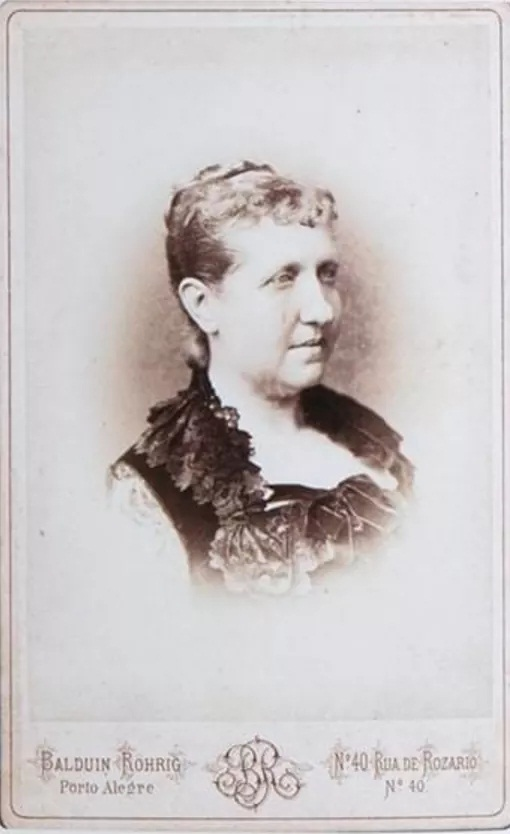 Isabel, Princess Imperial of Brazil in Porto Alegre, 1884.